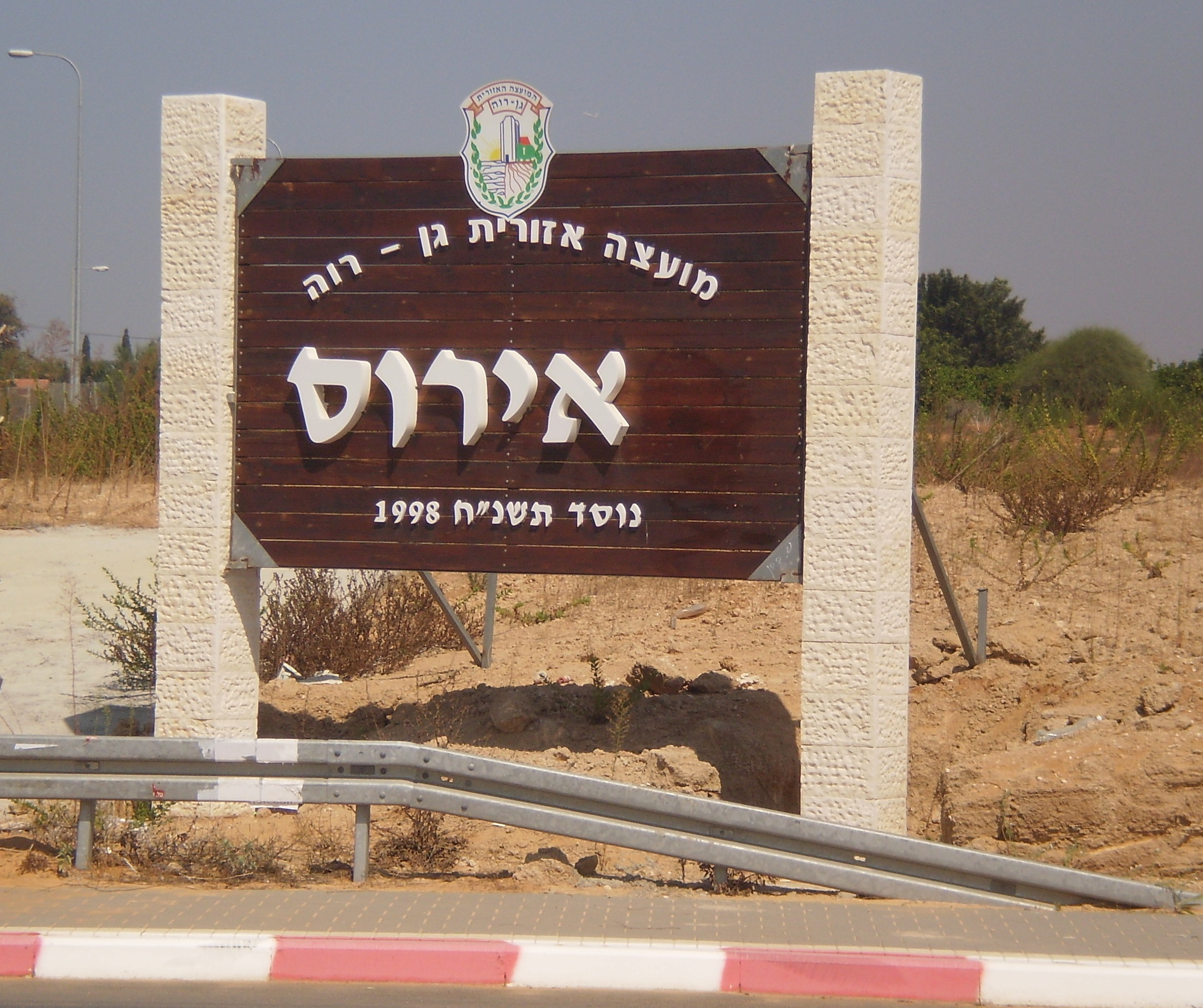 name sign of Irus